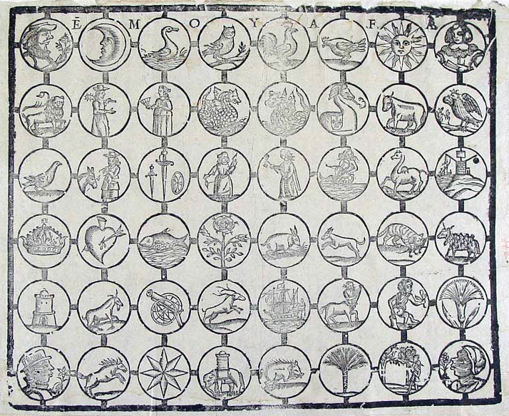 Auca del Sol i de la Lluna – Illustration by Pere Abadal from Moià (Catalonia) from the year 1676.